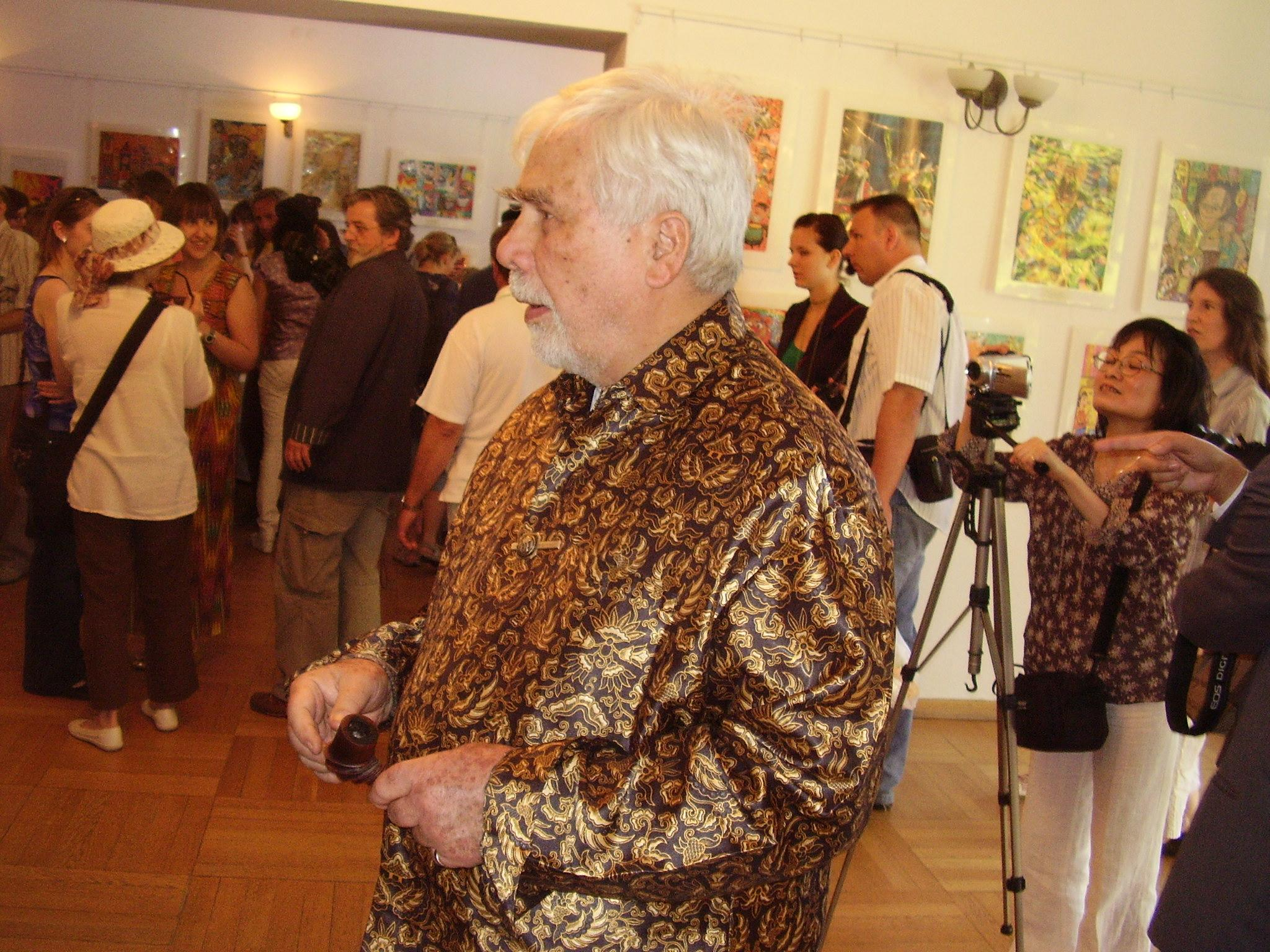 Andrzej Wawrzyniak opening an exhibition in Warsaw.